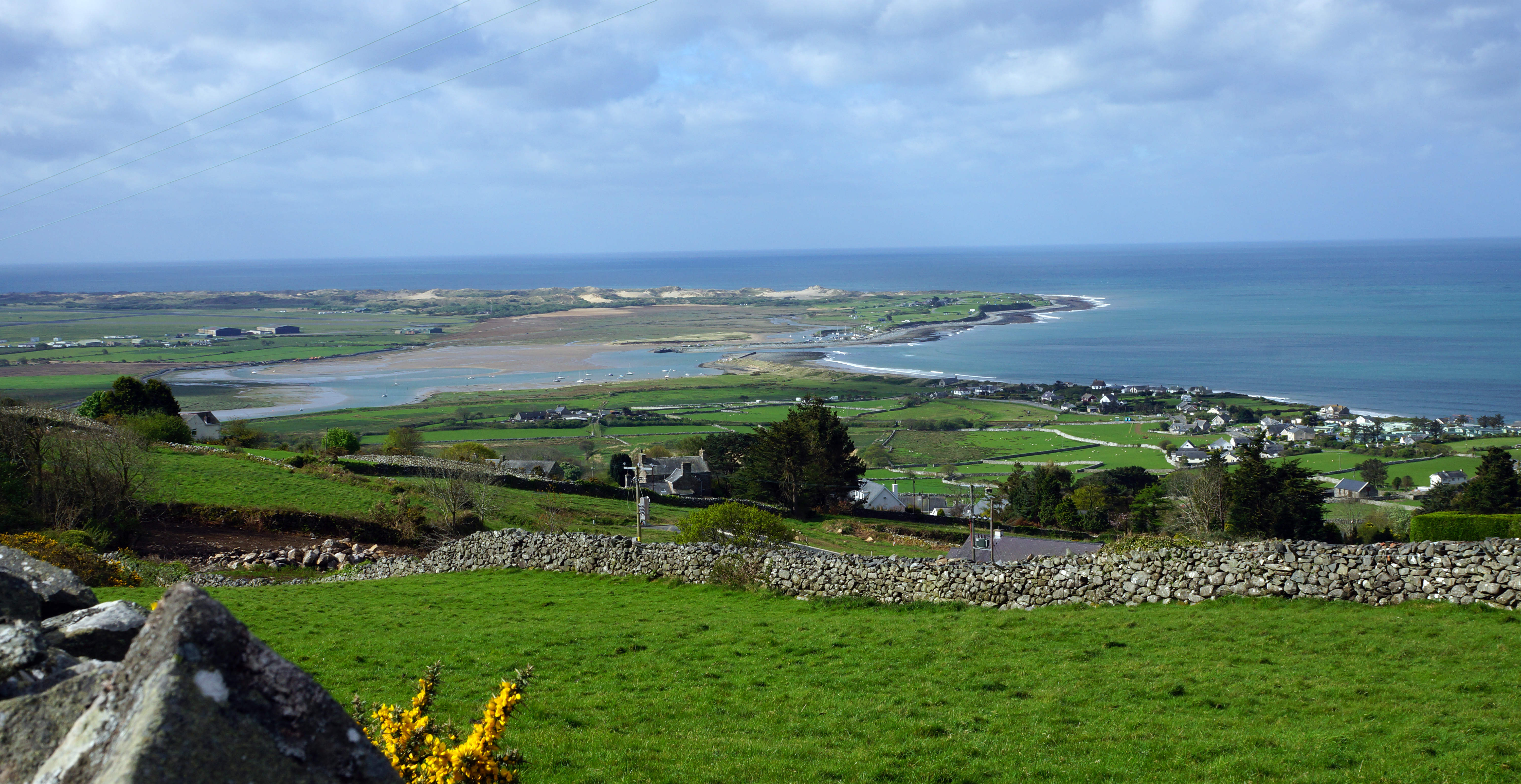 Llandanwg (right), Pensarn Harbour and Shell Island (above), in Gwynedd, Wales. Llanbedr Airport is on the left.